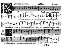 Tenor part of the motet Ecce quomodo moritur iustus by Jacob Handl (Jacobus Gallus)